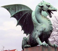 Derivative of the free-use image :Image:Ljubljana dragon.JPG. Designed for use on a WikiDragon template. BEING BOLD!!! Description: (Detail from) Ljubljana (Slovenia): Statue of the Ljubljana's dragon, located on a bridge near the market Author: (Derived from) Dani_7C3, December 2002